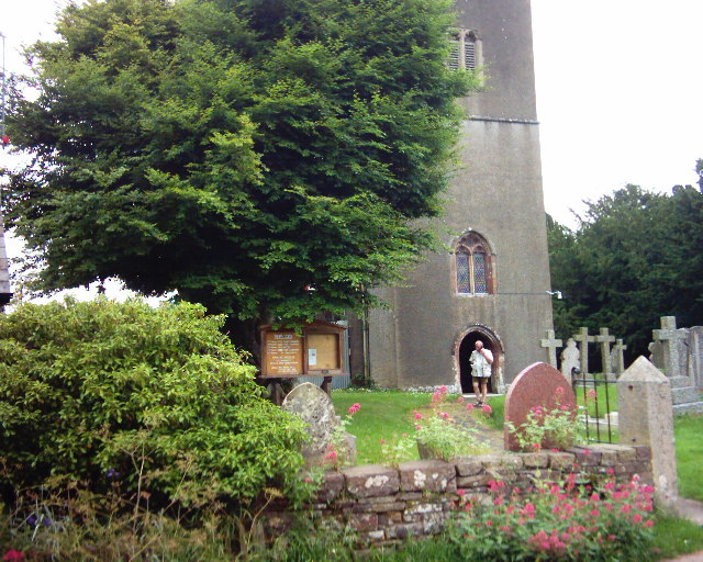 Bow (Anglican) Church and churchyard. Bow parish church is at Nymet Tracey, south of the village.